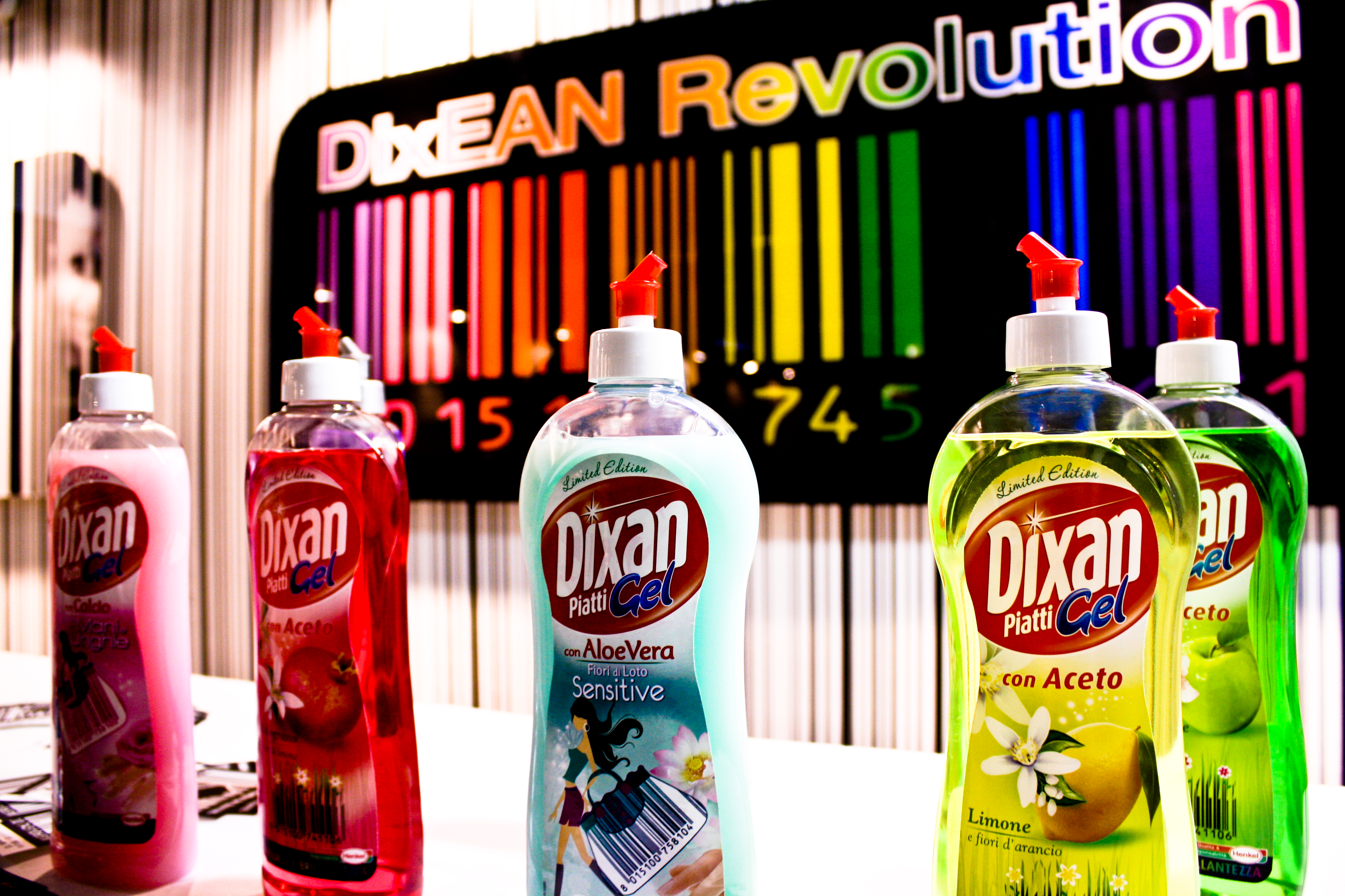 italian dishwashing liquids